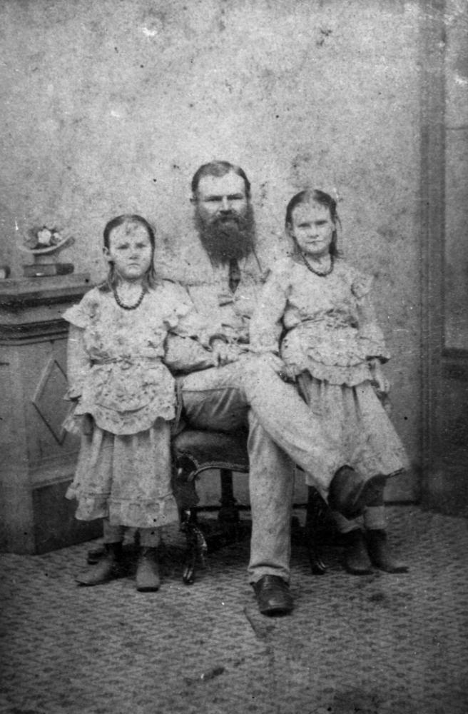 William Landsborough pictured with two of his daughters, ca. 1870 William Landsborough (1825-1886) was born on 21 February 1825 at Stevenston, near Saltcoats, Ayrshire, Scotland. He married Caroline Hollingworth Raine in Sydney in December 1862 and they had three daughters. Caroline later died of tuberculosis. William met and married Maria Carr in March 1873. They had three sons. William was the first European to cross Australia from North to South, while searching for explorers Burke and Wills. He explored much of Queensland and was rewarded by the Queensland Government with about 2000 pounds which he used to purchase land at Caloundra which he named 'Loch Lamerough', where he settled around 1882.